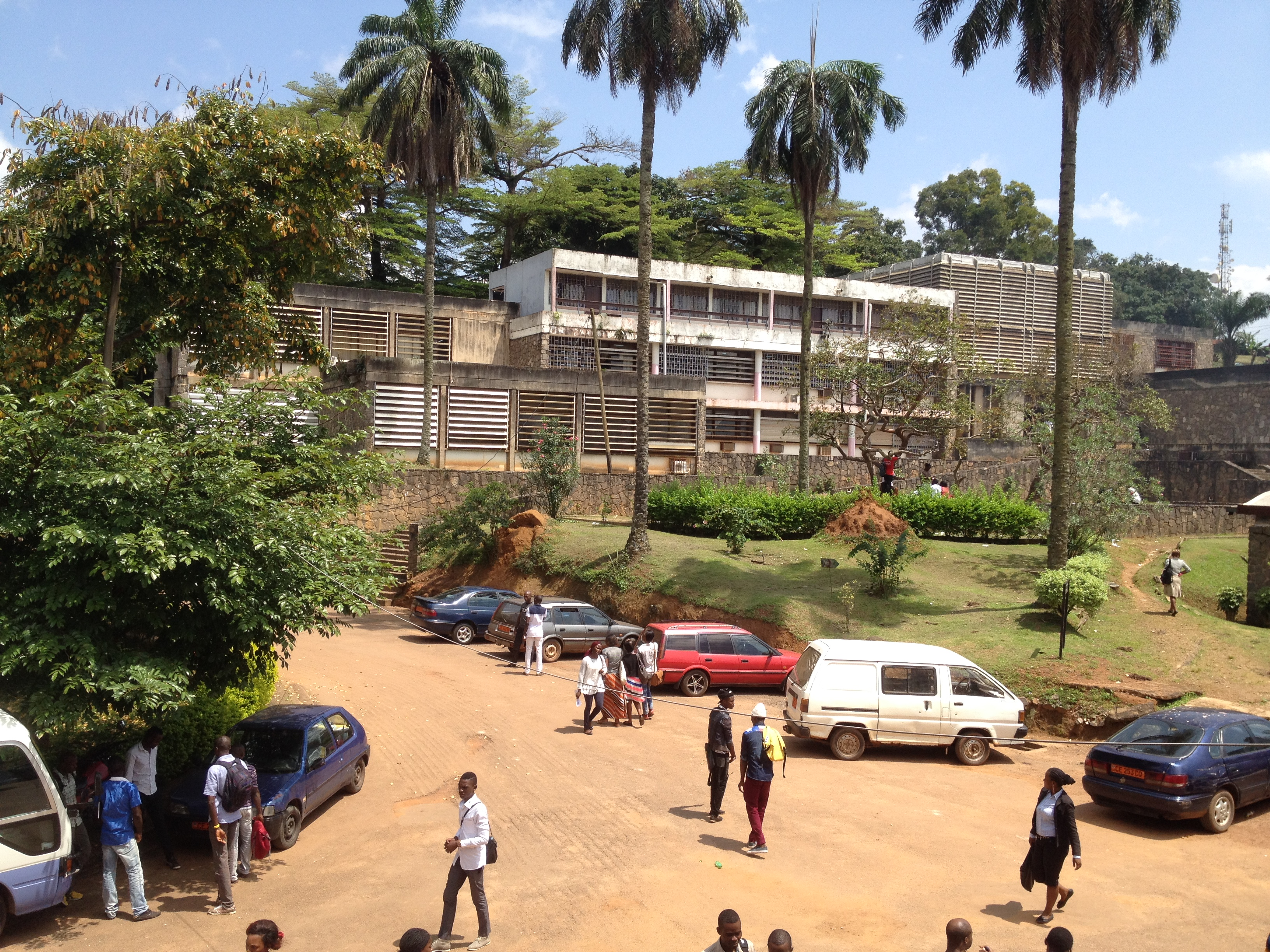 The campus of University of Yaoundé I in Ngoa-Ekelle, seen from the building of the scolarité of the FALSH. In the background one can see the building in which are the German department and the department of geography.